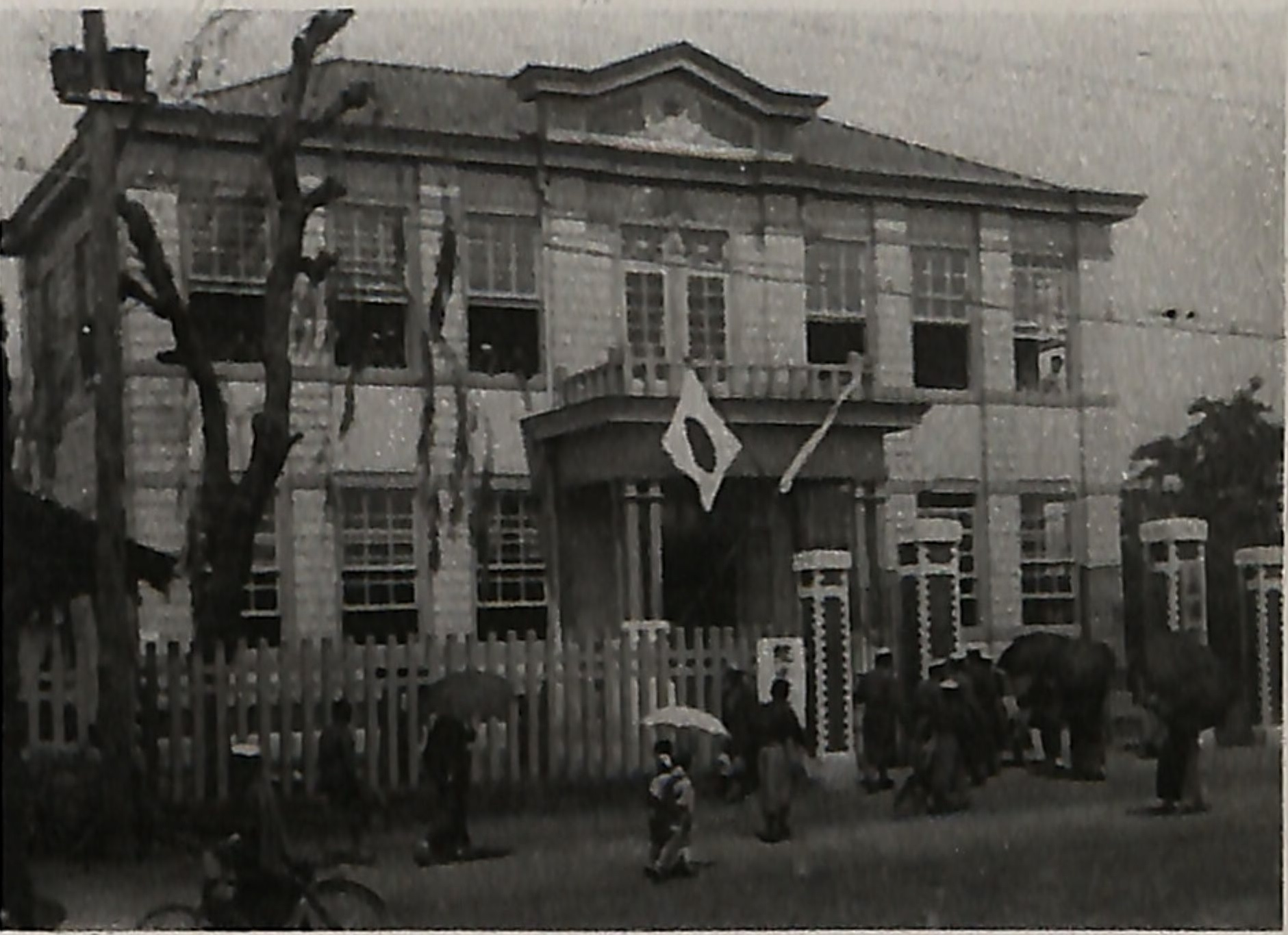 It was Tsuchiura town office in Ibaraki, Japan. Tsuchiura town library was in this building.